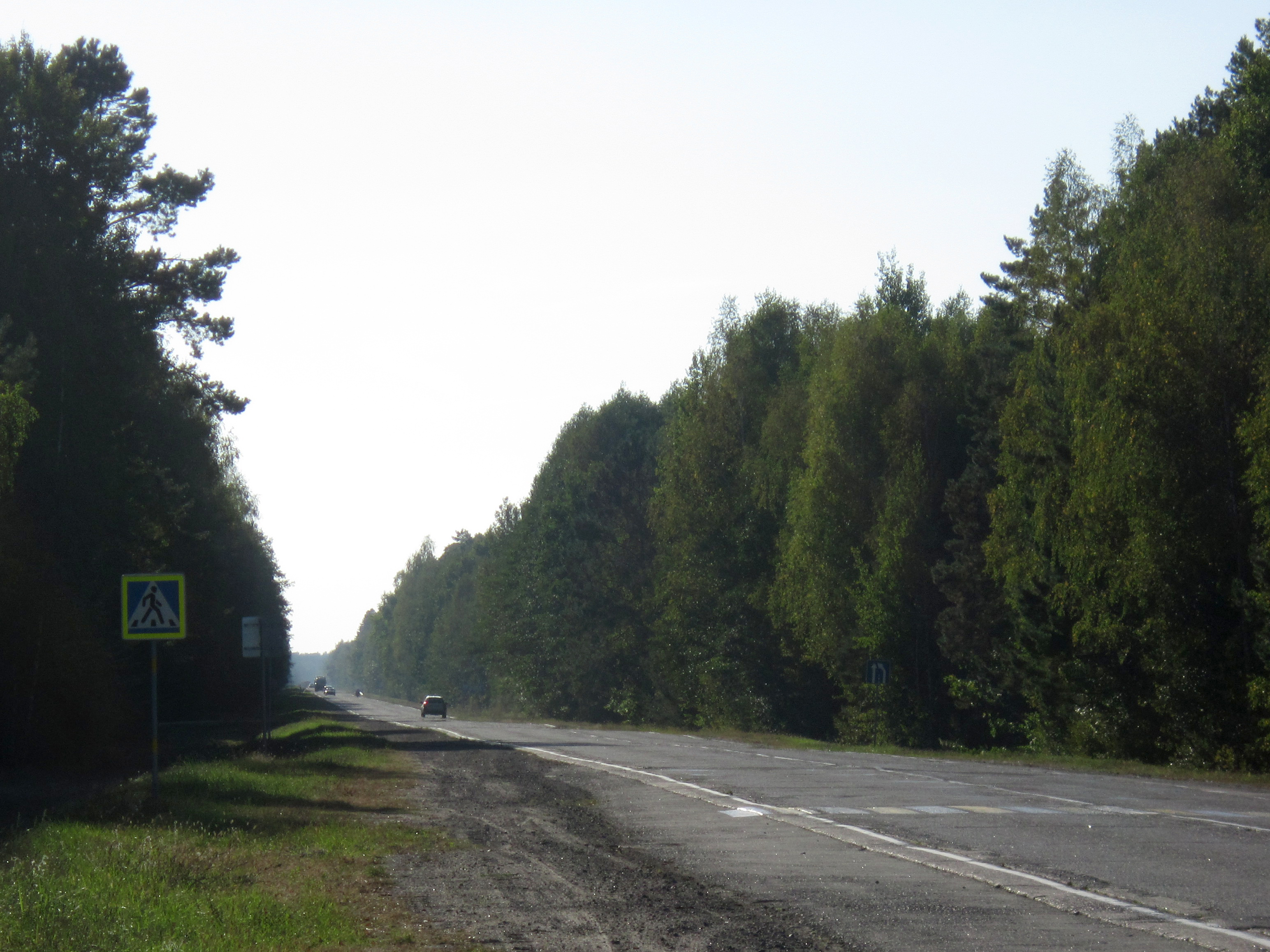 M10 road in Belarus. Žytkavicki Rajon.